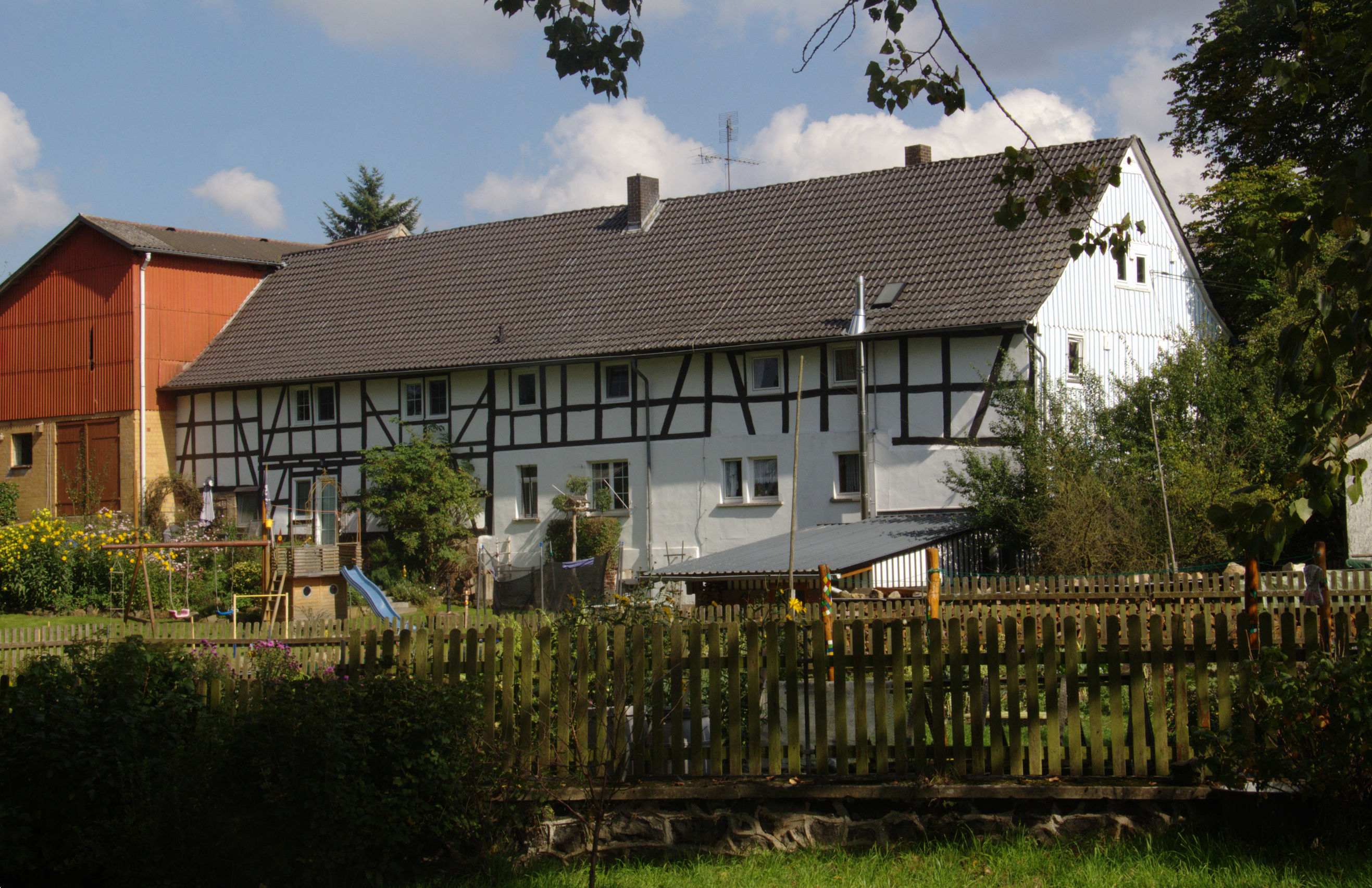 Half-timbered building (Water mill) in Hattendorf Berfmühle 1, Alsfeld, Hesse, Germany